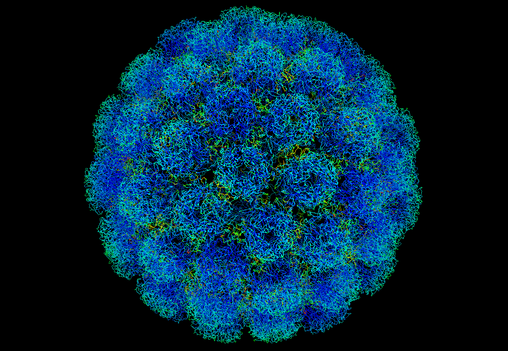 SIMIAN VIRUS 40 - PDB entry: 1SVA